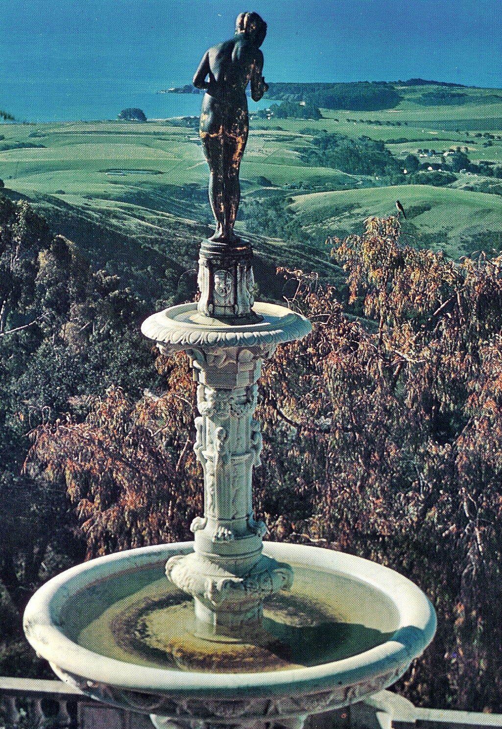 Sculpture From Gustav Adolf Daumiller